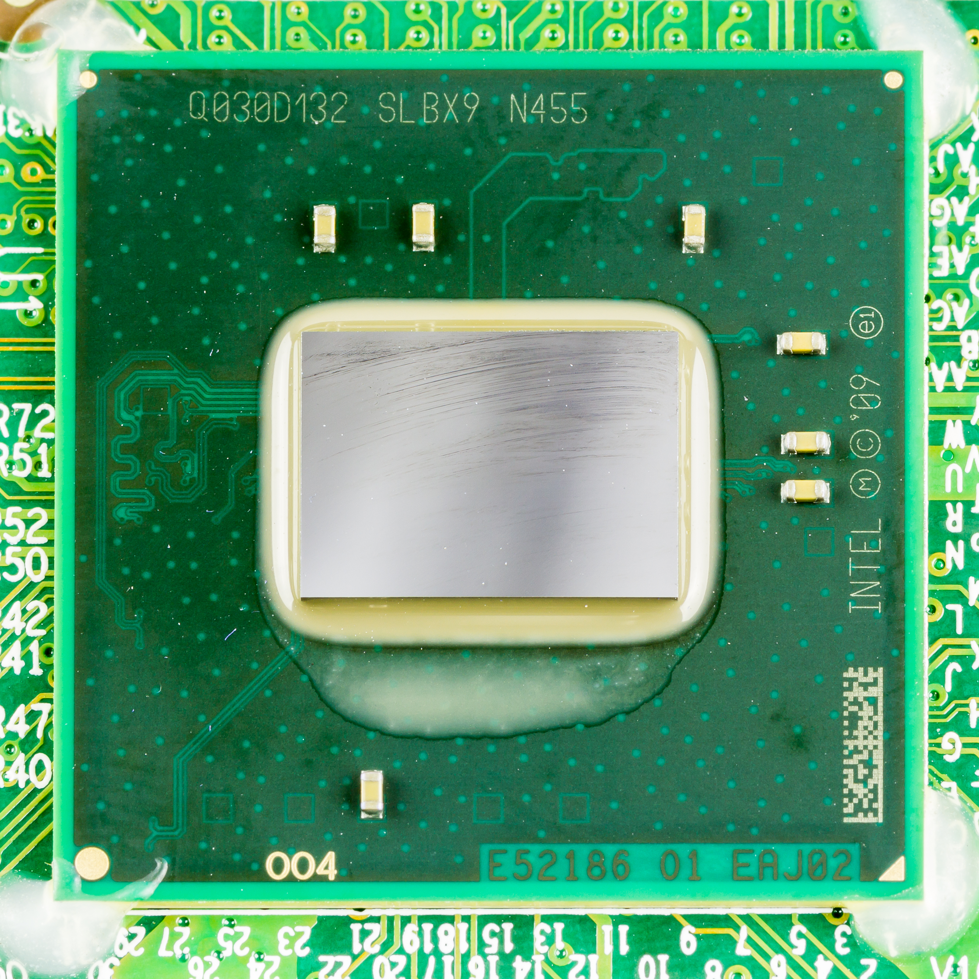 Intel Atom N455 (Pineview) - SLBX9 -Intel Atom N455 (Pineview) - SLBX9 - on mainboard